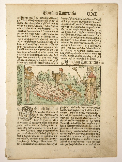 (Jacobus de Voragine): Heiligenleben. Der Heiligen Leben. (Legenda aurea, in German.) (VD16 H1477) Page CXI: About Saint Laurentio.